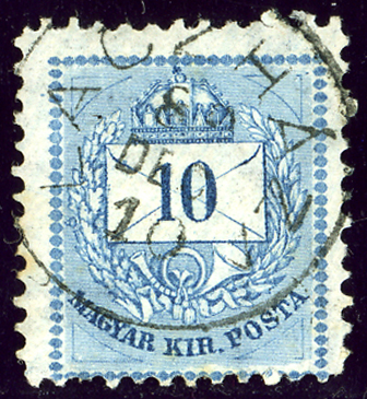 Kingdom of Hungary 10 kr issue 1881 stamp, cancelled at LACZHÁZA (Kiskunlacháza, central Hungary) in 1888.